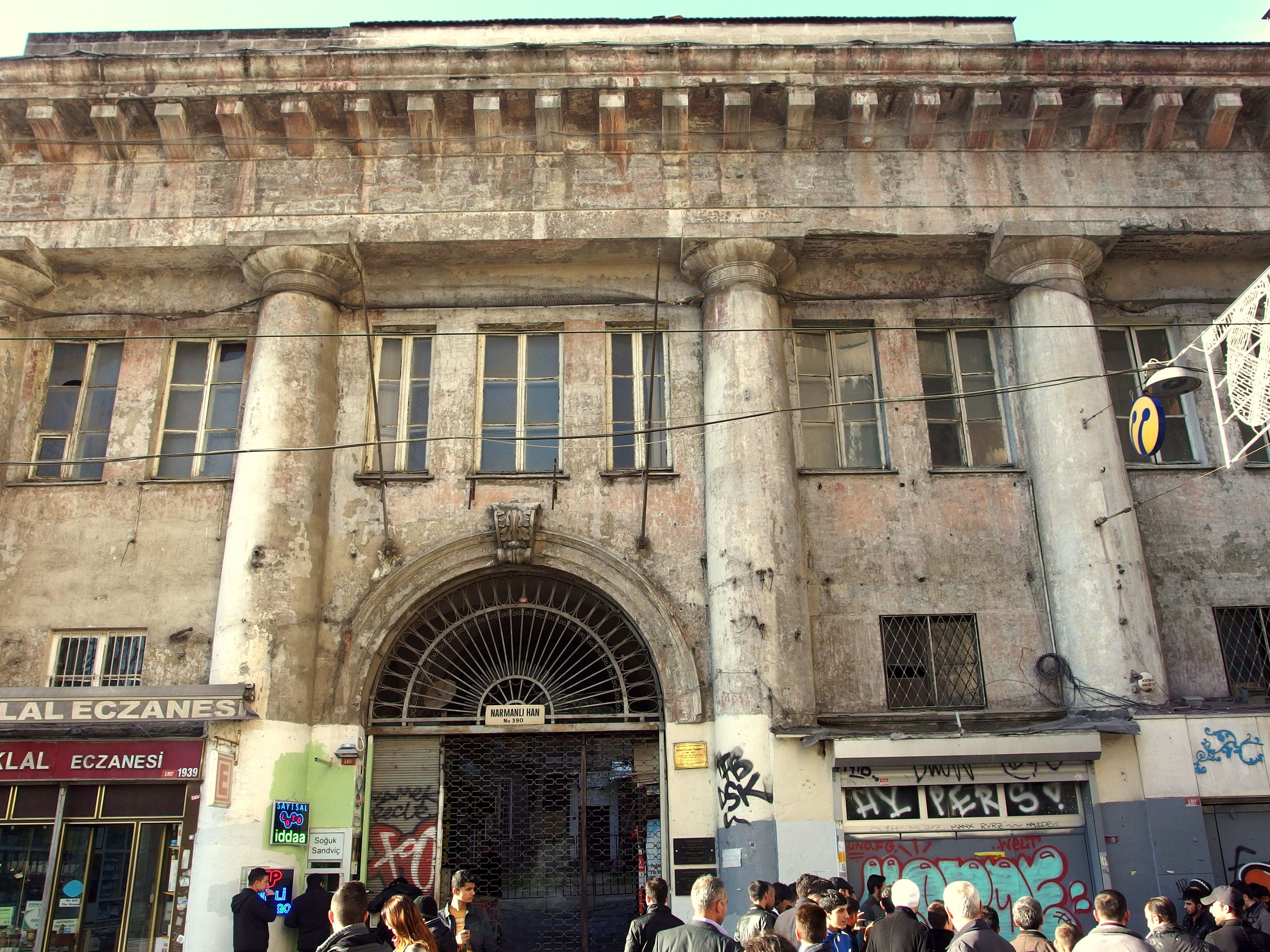 2013-12-08 in Istanbul.